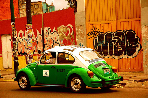 Mexico City Taxi.